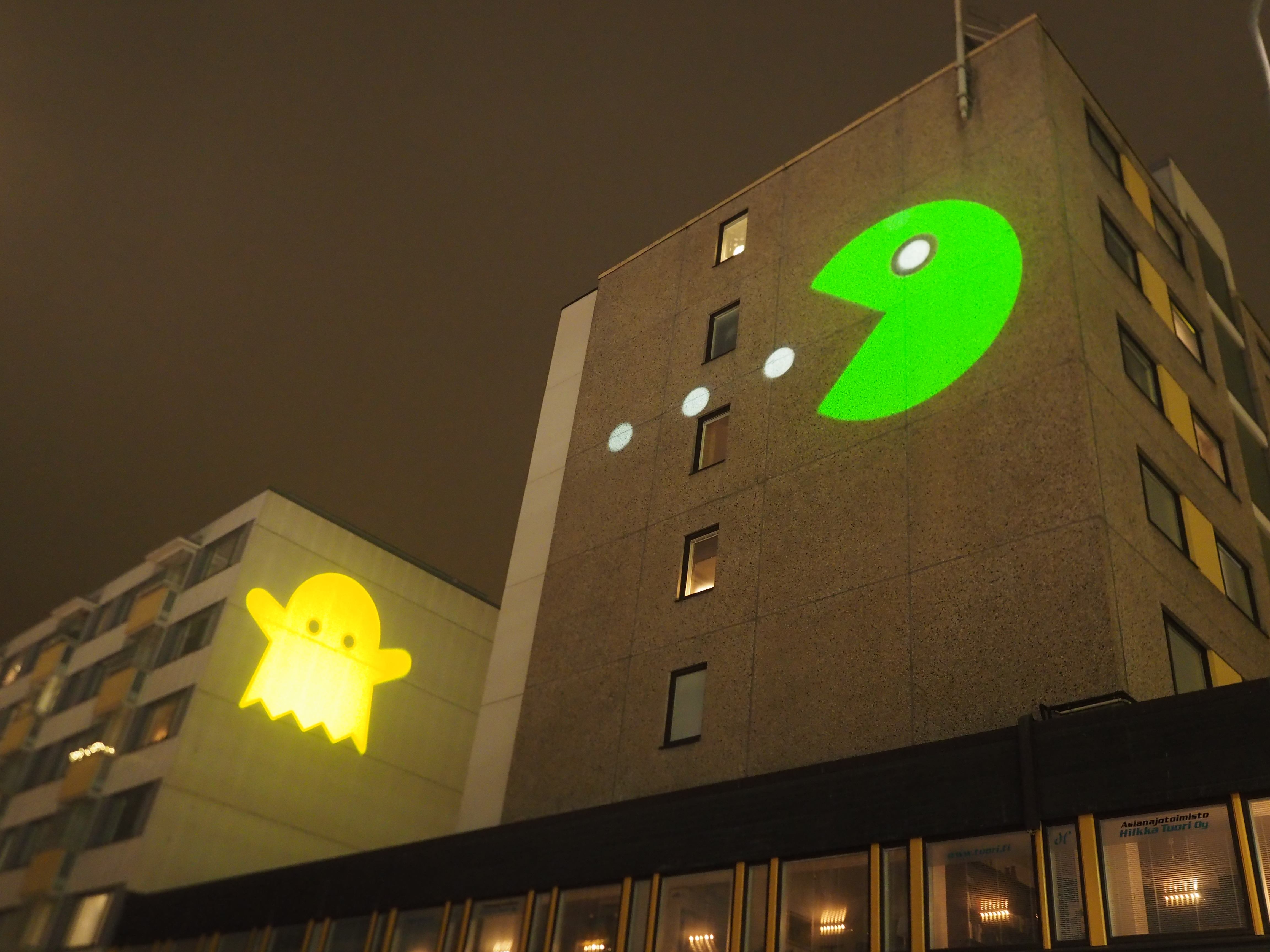 Illuminated art on building walls in Tampere, Finland, showing Pac-Man, three pills, and a ghost.